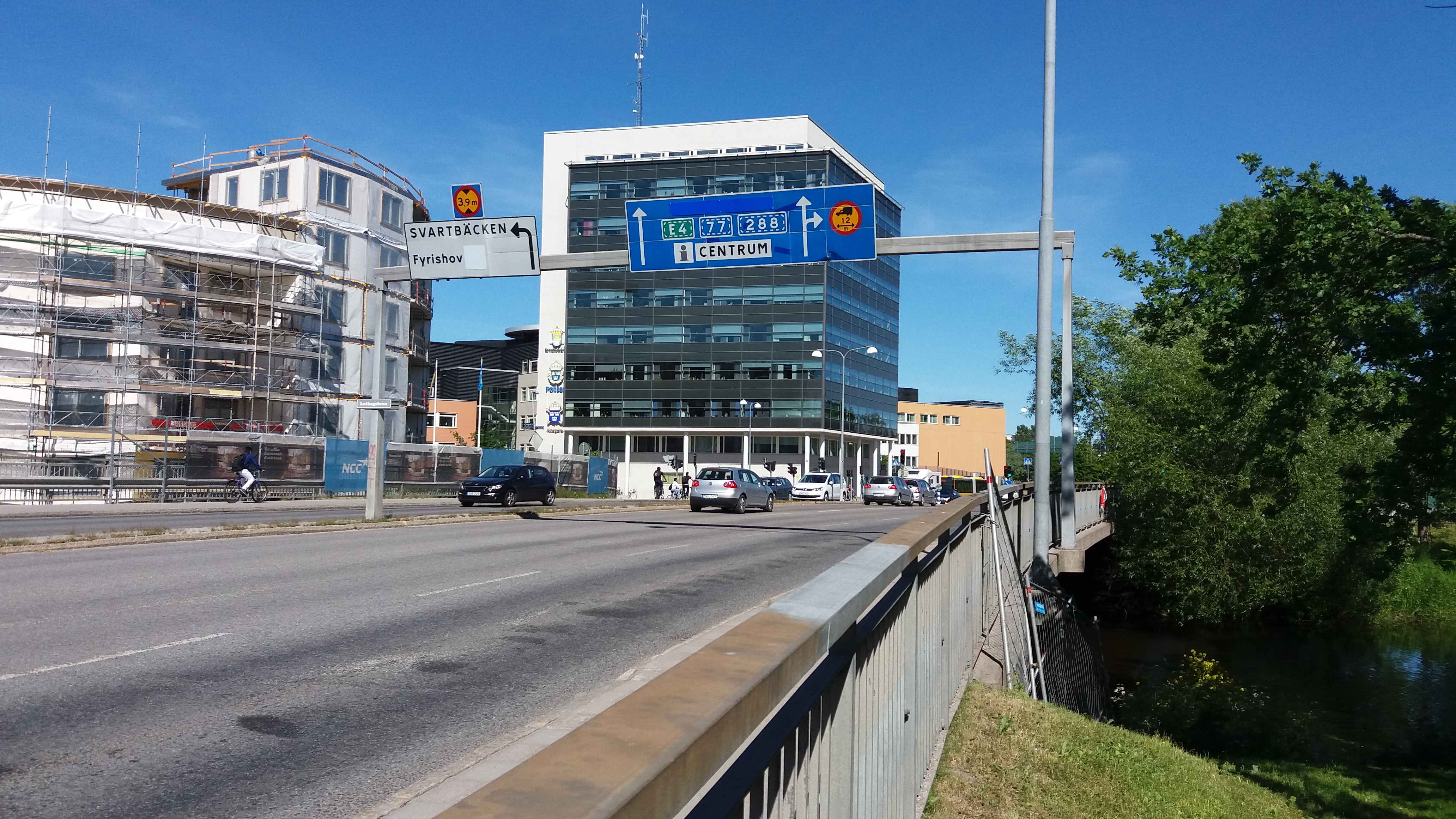 Luthagsbron, Uppsala.